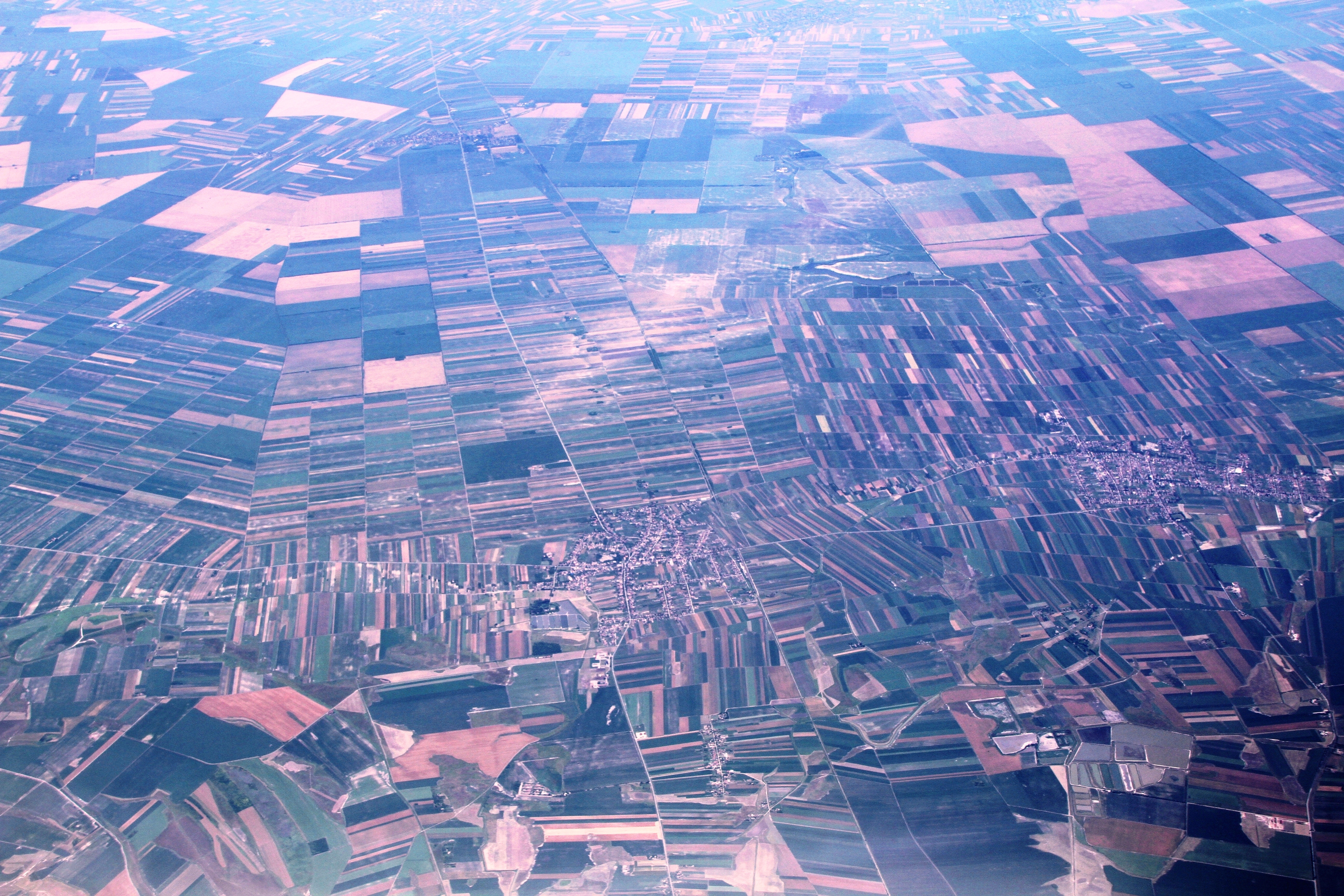 Aerial view of Svetozar Miletic, and neighbouring Conoplija, in Sombor municipality of Vojvodina region (northern Serbia)